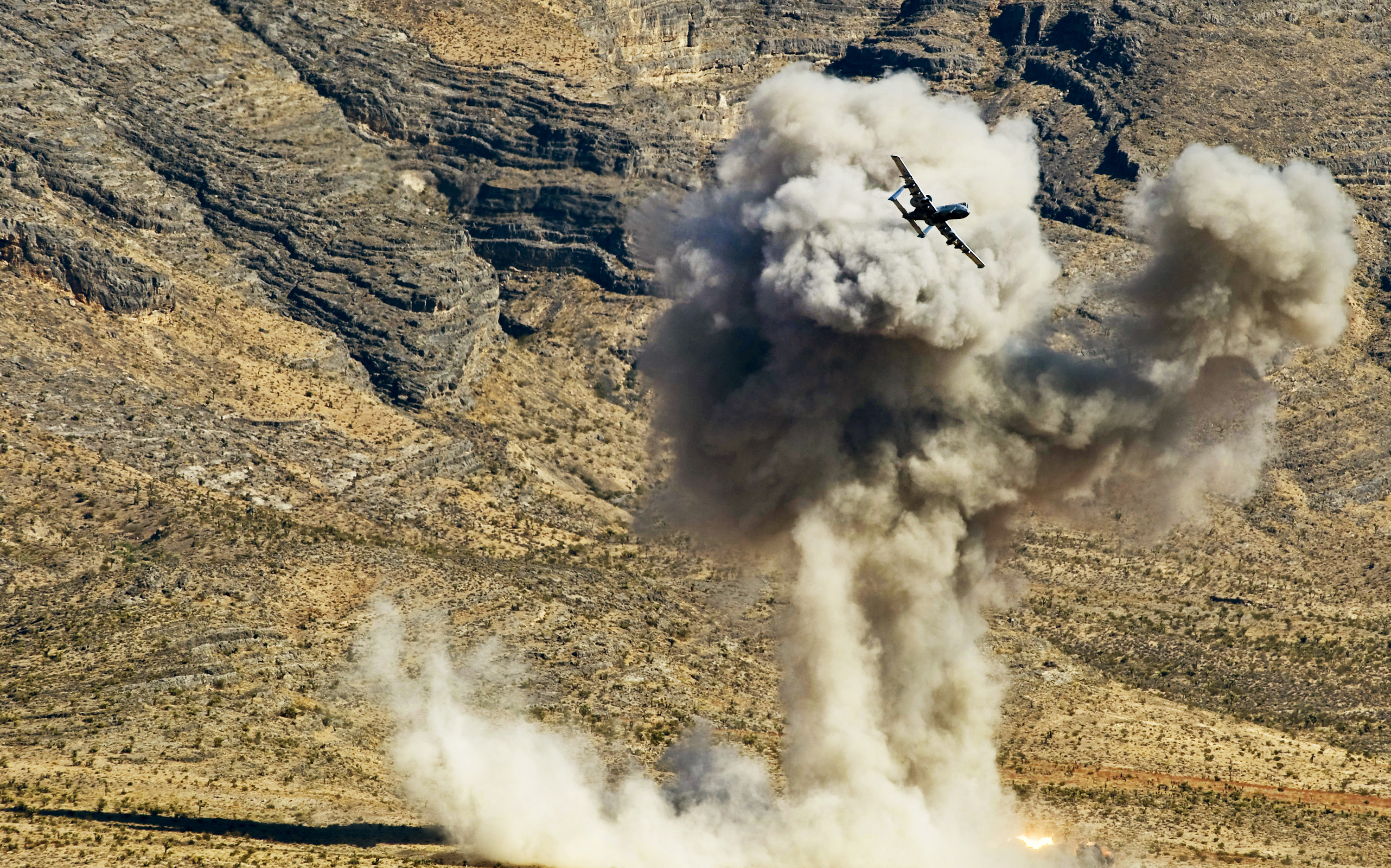 A U.S. Air Force A-10 Thunderbolt II with the U.S. Air Force Weapons School drops an AGM-65 Maverick during a close air support training mission over the Nevada Test and Training Range (NTTR) on Sept. 23, 2011 as part of a six-month, graduate-level instructor course held at Nellis Air Force Base.